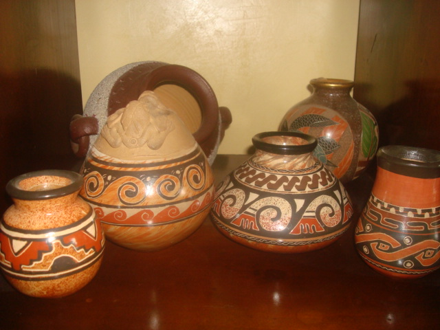 Modern nicoya pottery from Costa Rica.